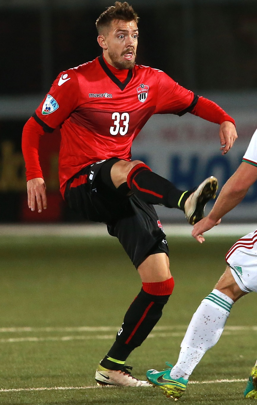 Daniel Sikorski with FC Khimki in a game against FC Lokomotiv Moscow.